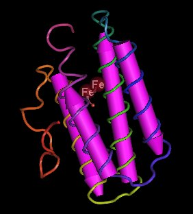 I generated this image from a .cn3 file found on the Public Medical journal network